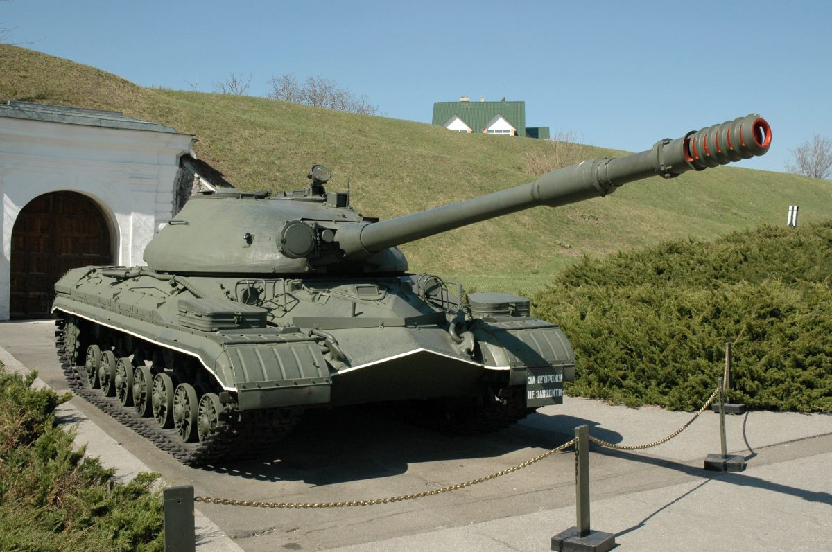 T-10 Soviet heavy tank